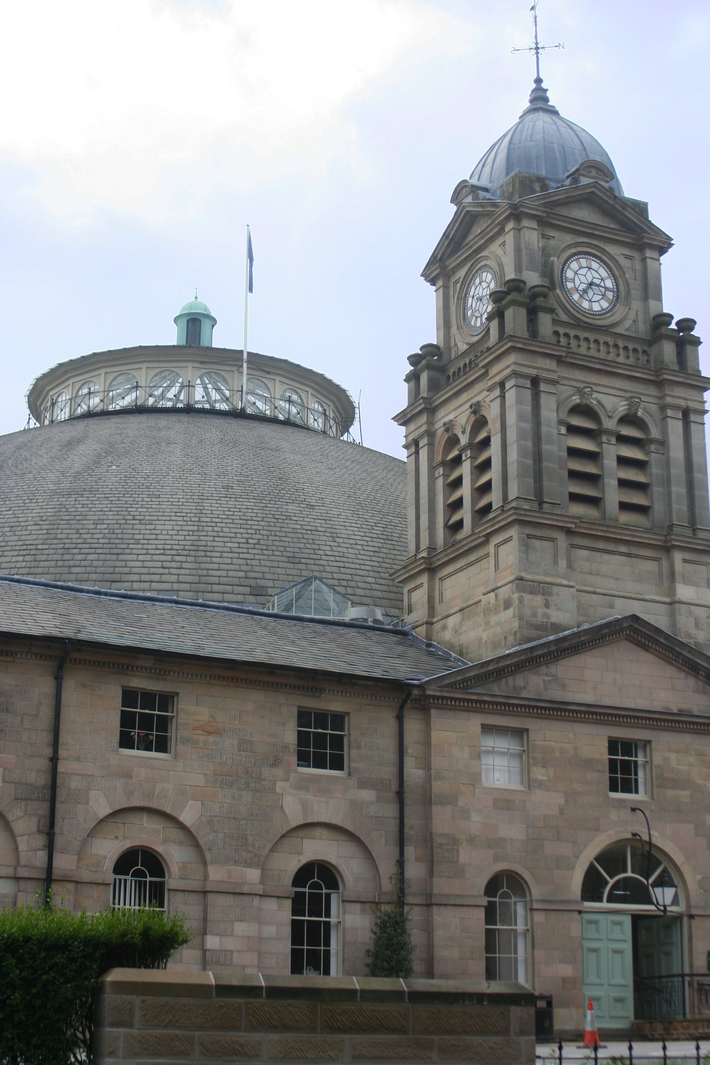 Devonshire Dome in Buxton, Derbyshire, England. The dome was previously the Devonshire Hospital; it now serves as the Devonshire Campus of the University of Derby.